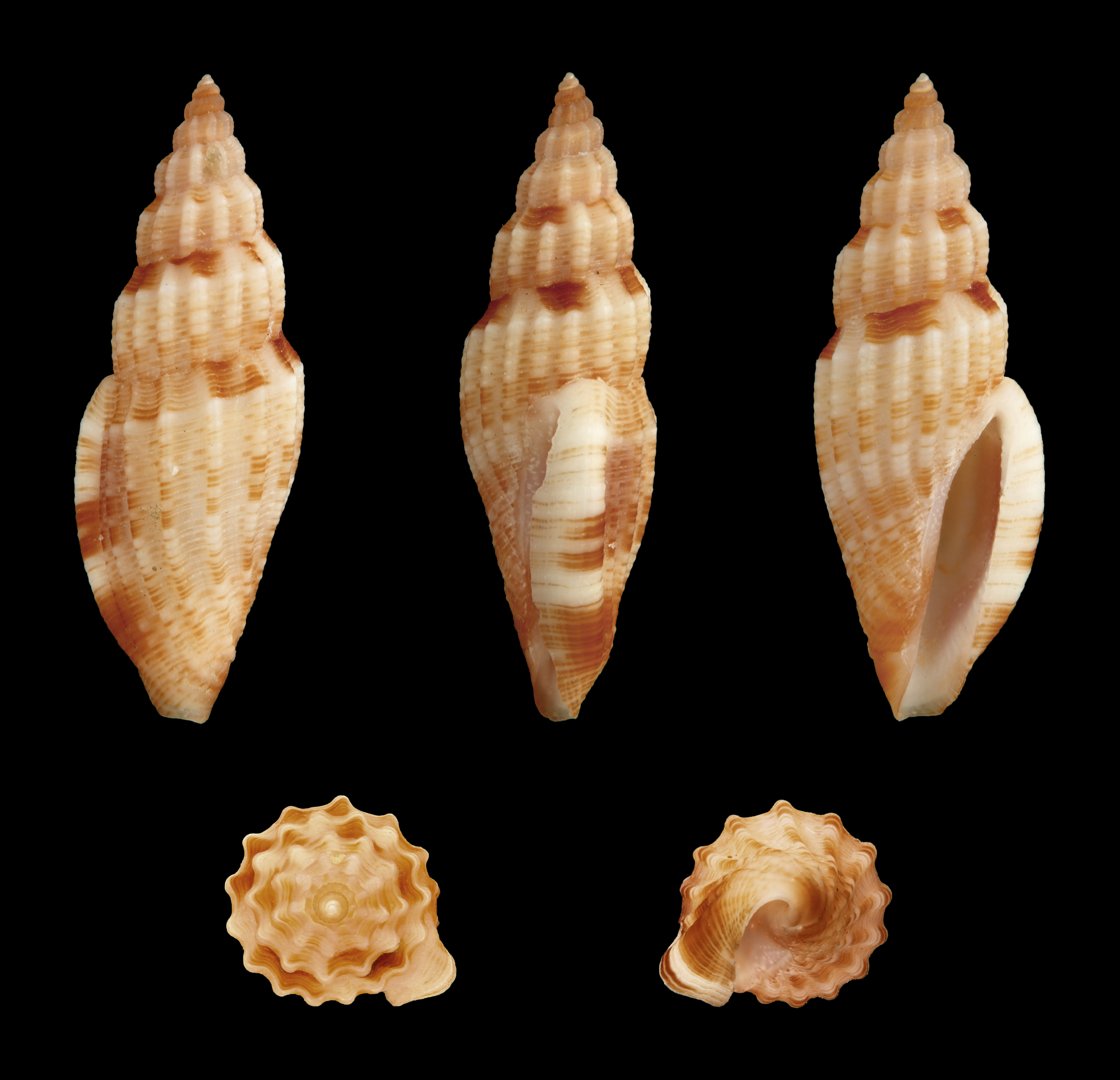 Length 1.6 cm; Originating from Balicasag Island, Philippines; Shell of own collection, therefore not geocoded. Dorsal, lateral (right side), ventral, back, and front view.